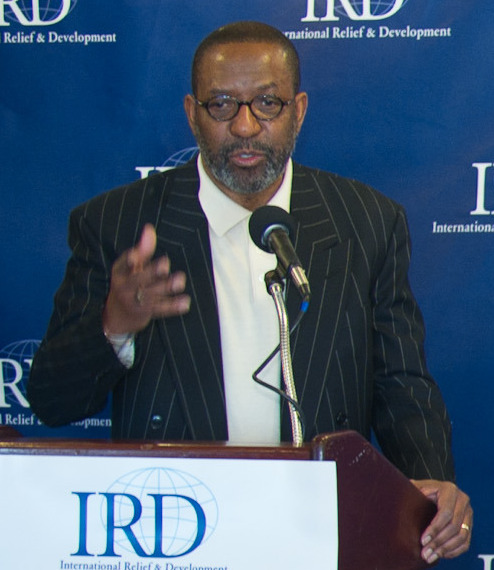 Kojo Nnamdi moderating a breakfast panel discussion hosted by International Relief and Development at the National Press Club in Washington, DC on December 9th, 2010.